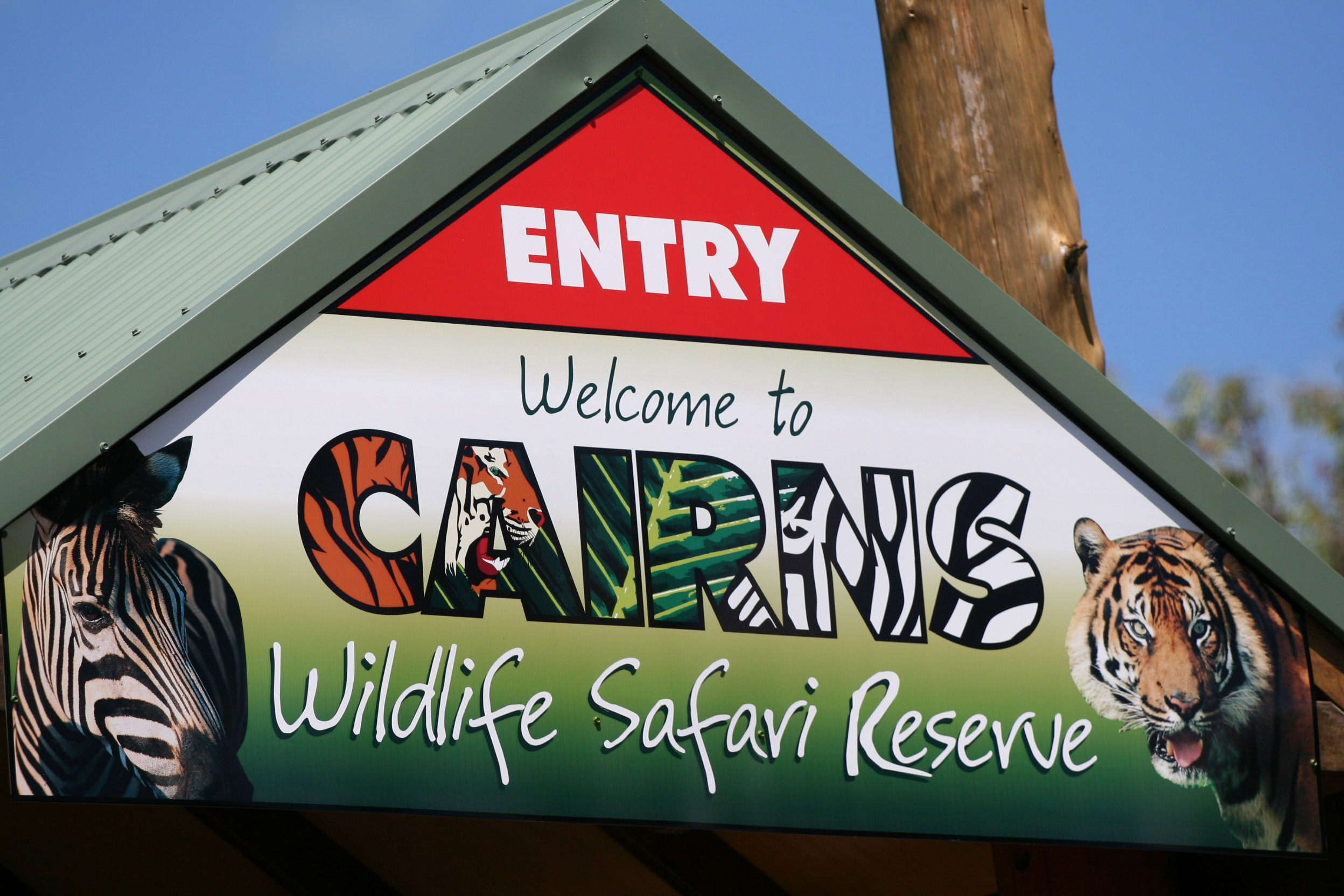 Cairns Zoo Entrance sign